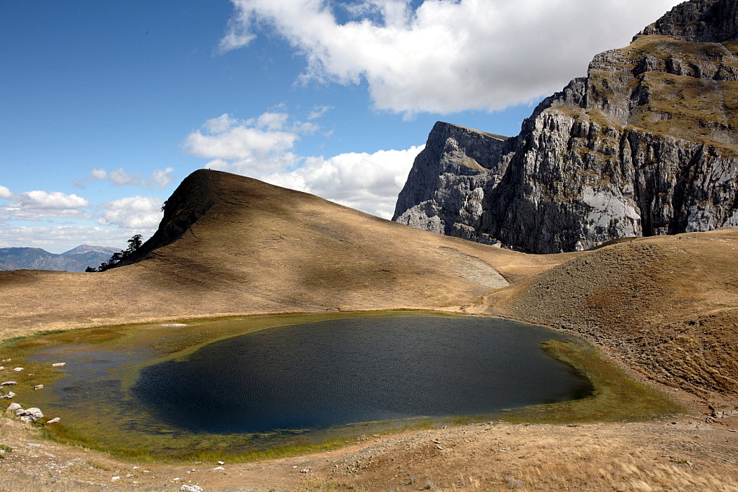 Zagori: Dragonlake and Gamila summit (2,497 m) of mount Timfi, periphery of Epirus, Greece.